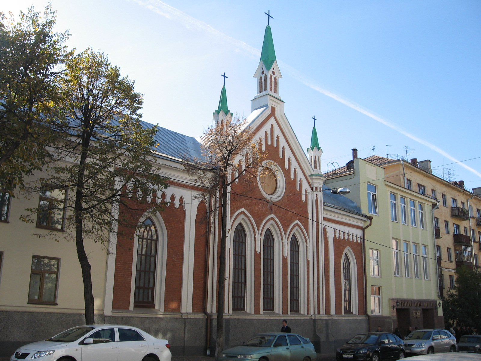 lutheran church St.Ekaterina, Kazan.